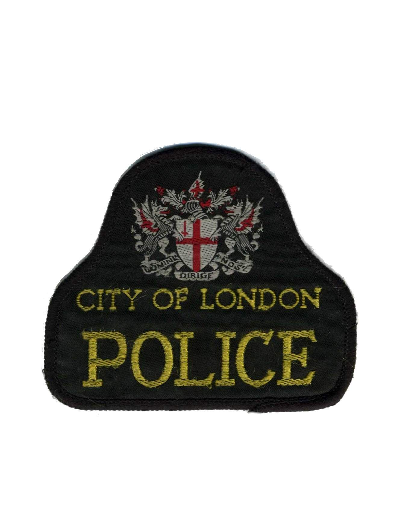 Part of my collection of UK Police insignia